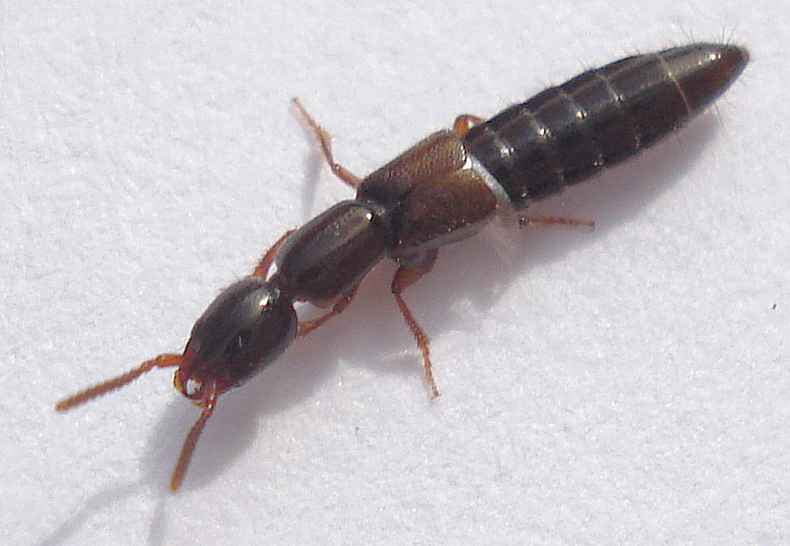 Xantholinus sp.